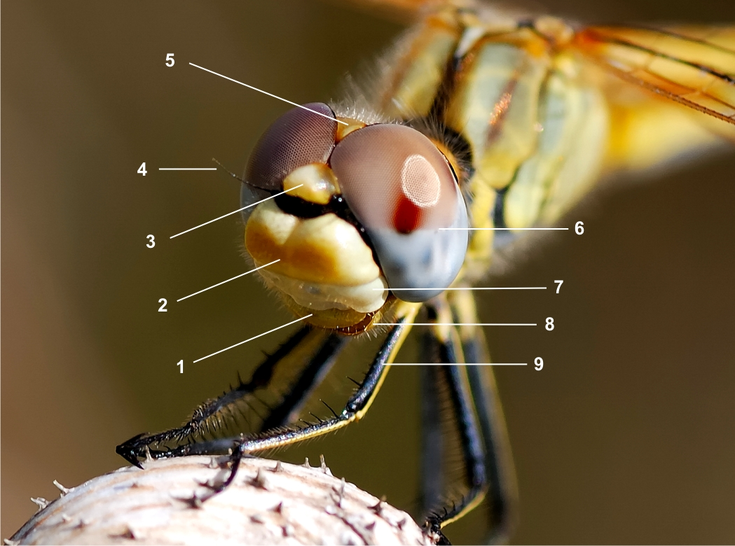 Head of a dragonfly (Sympetrum fonscolombii): Labrum Frons Vertex Antenna Occipital triangle Compound eye Clypeus Maxilla Front leg